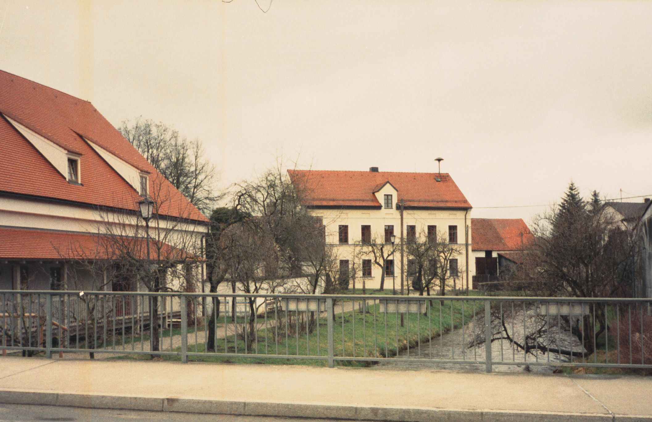 Weichering, "Pfarrstadel" (former storehouse of the local parish, left) and town hall (former schoolhouse, centre).